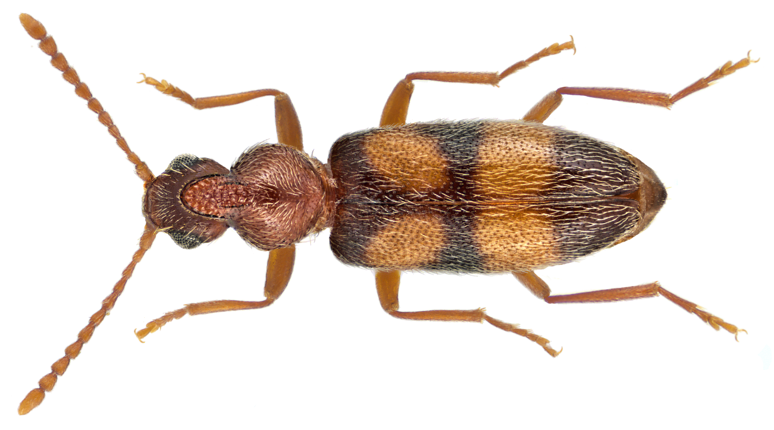 Family: Anthicidae Size: 3,4 mm Location: Botswana, Kasane leg. Forchhammer, 1994; det. G.Uhmann, 1994 Foto: U.Schmidt, 2015